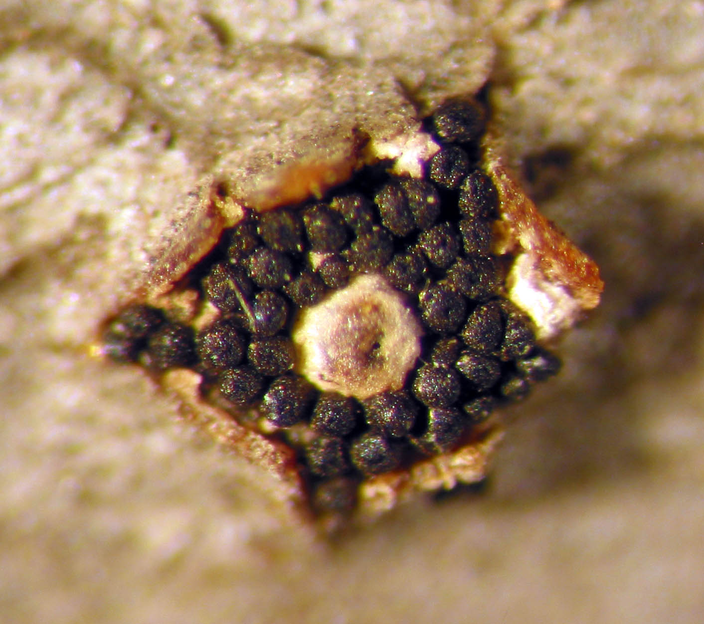 Leucodiaporthe juglandis